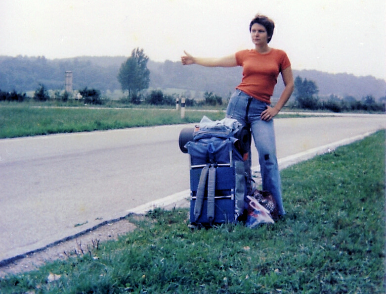 A hitchhiker in Luxembourg on 18 or 19 Aug 1977 (then 18 years old).